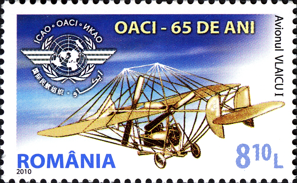 Stamps of Romania, 2010